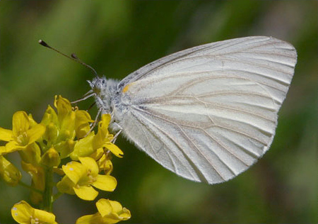 The West Virginia White Butterfly (Pieris virginiensis) on wild mustard.